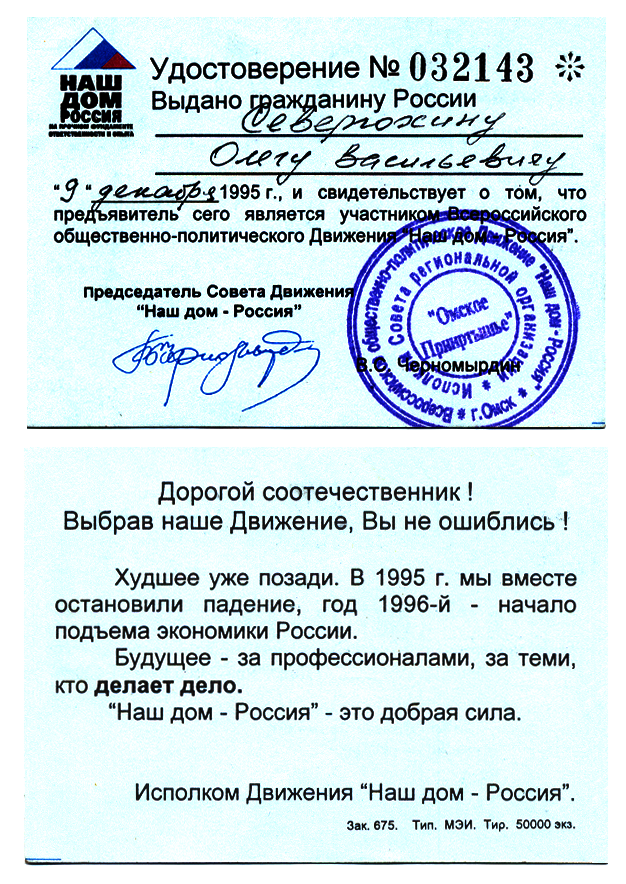 The membership card of the political party OUR HOME — RUSSIA, from 1995 to 1999 year. Russian political party created on the initiative of the first President of Russia Boris Yeltsin , under the chairmanship of Prime Minister Viktor Chernomyrdin.